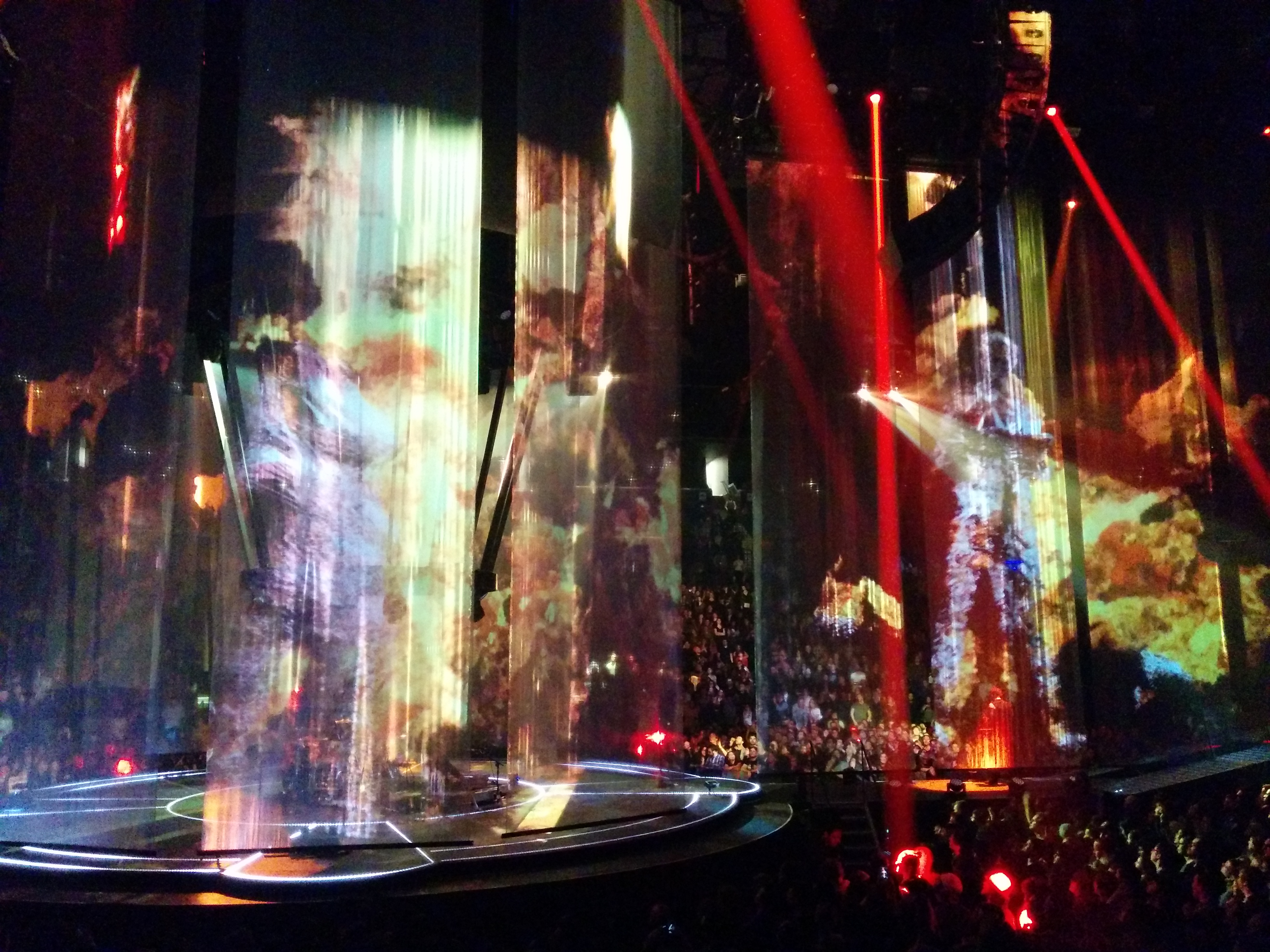 Muse concert in Brooklyn, NY